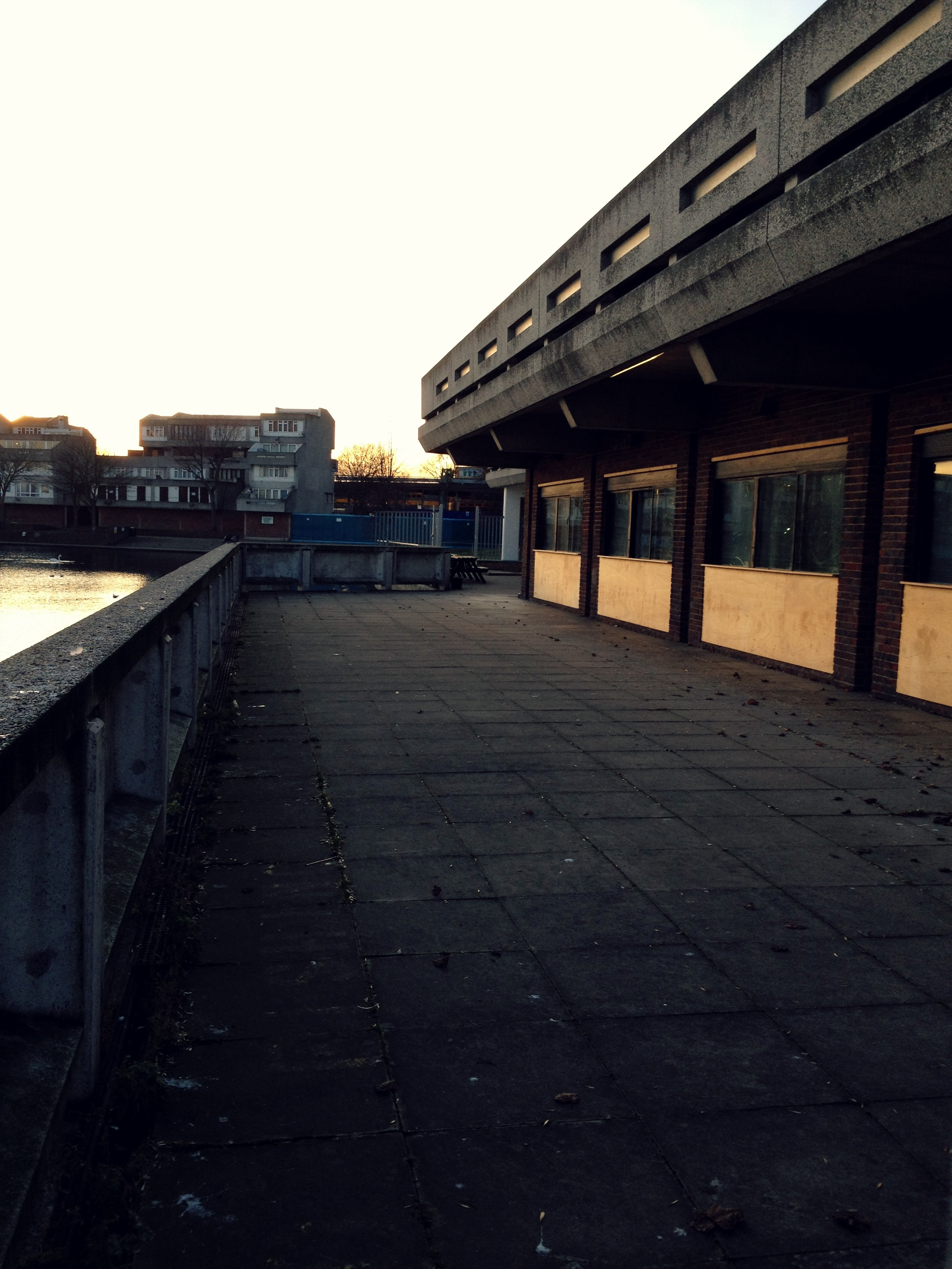 Set for British tv series Misfits.